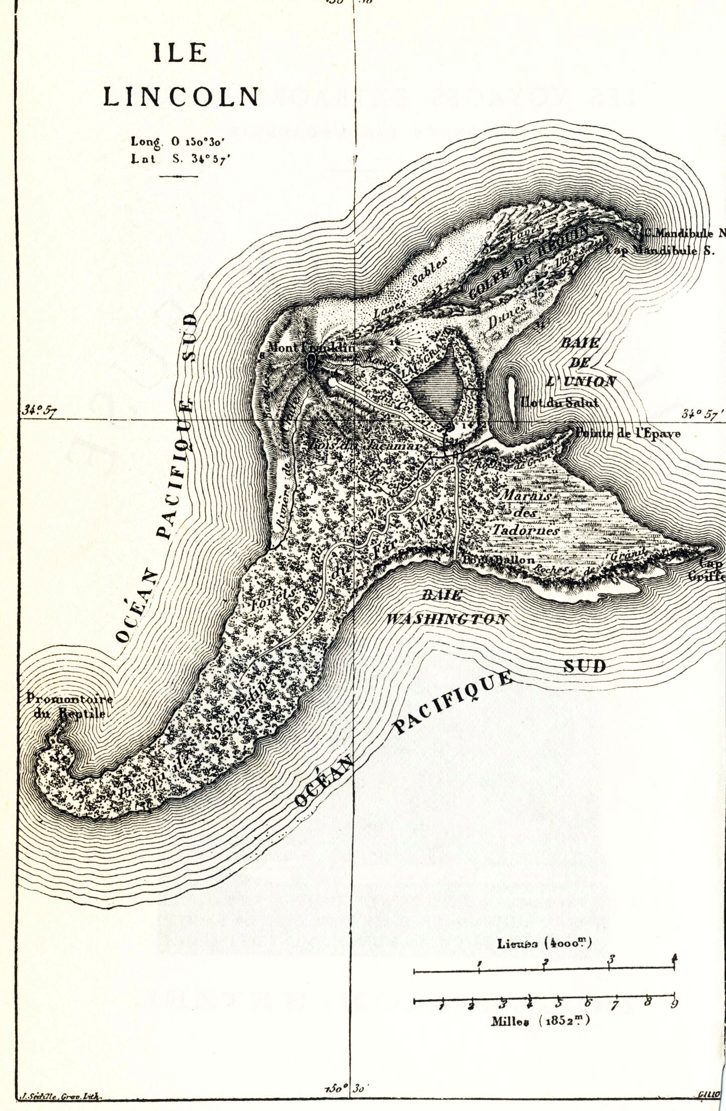 Map of the fictional Lincoln Island (The Mysterious Island).